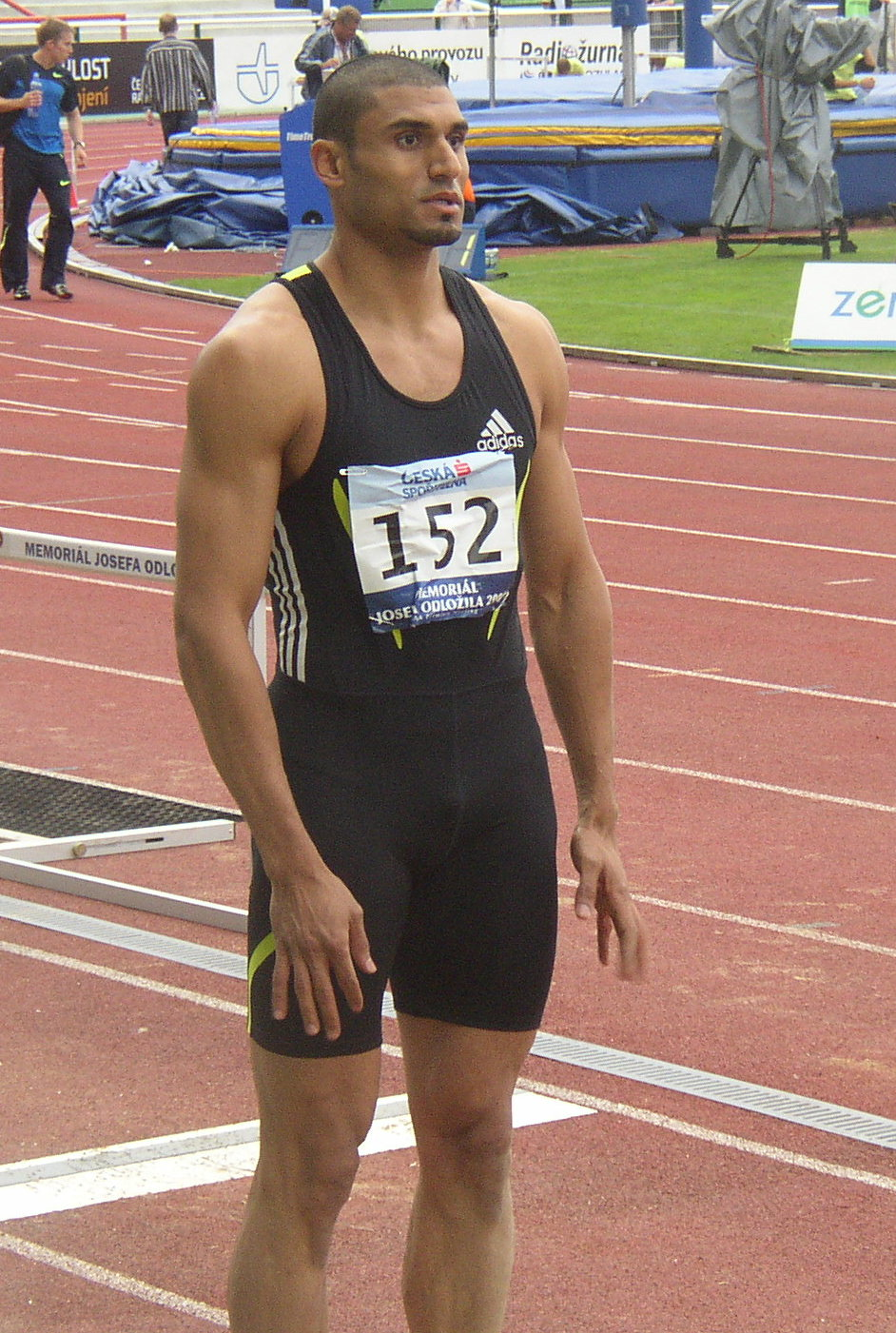 Saudi long jumper Hussein Al-Sabee preparing to one of his attempts at Josef Odložil Memorial in Prague, June 16, 2008 (1st place for 8.14 m, wind -0.3 m/s).